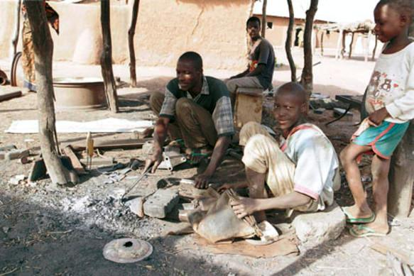 Bolgatanga, colloquially known as Bolga, is the capital of the Upper East Region of Ghana. This picture shows a traditional blacksmith at work in Bolgatanga.